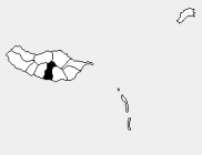 Location of Câmara de Lobos (Madeira)